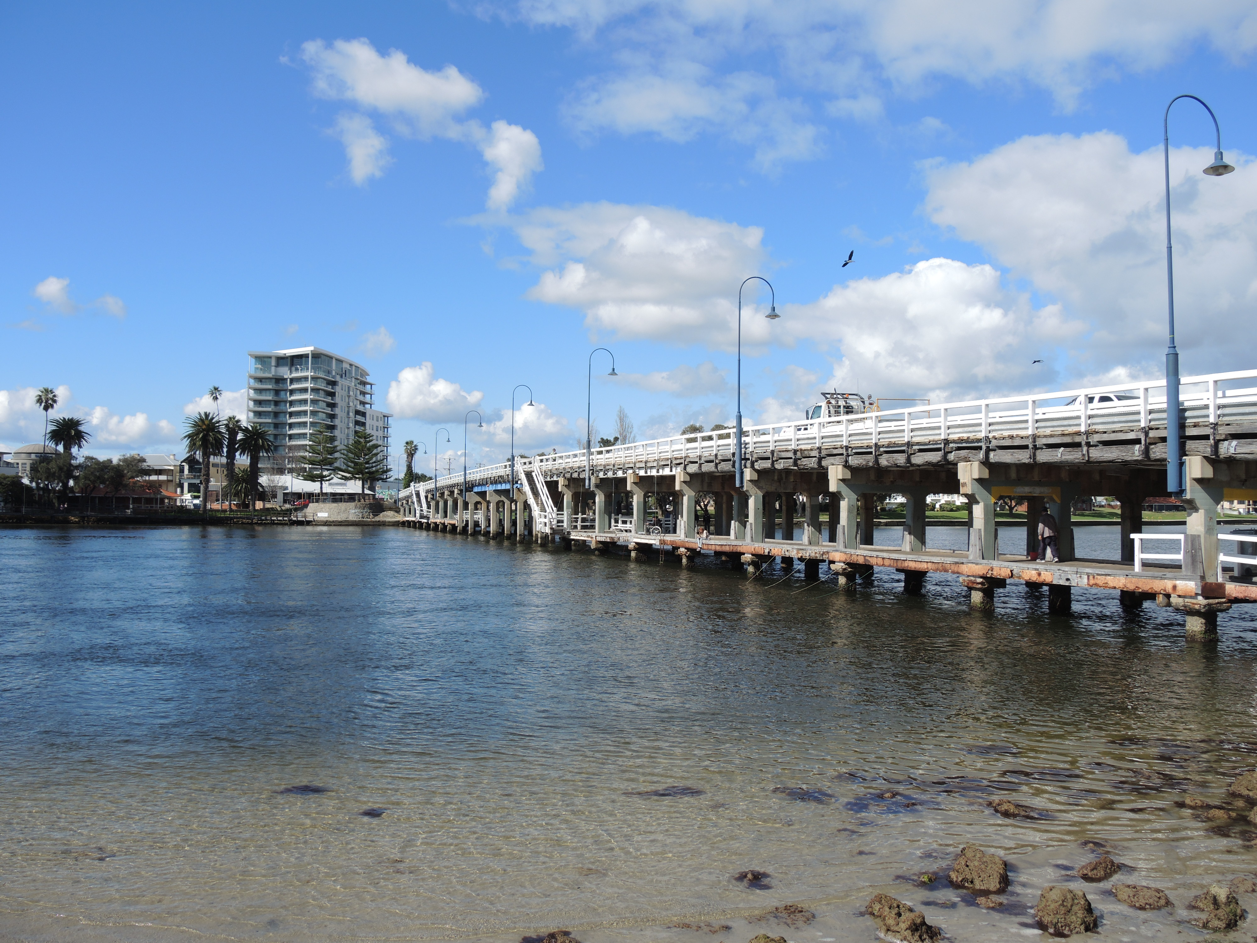 Old Mandurah Bridge in Mandurah, Western Australia. (August 2015)